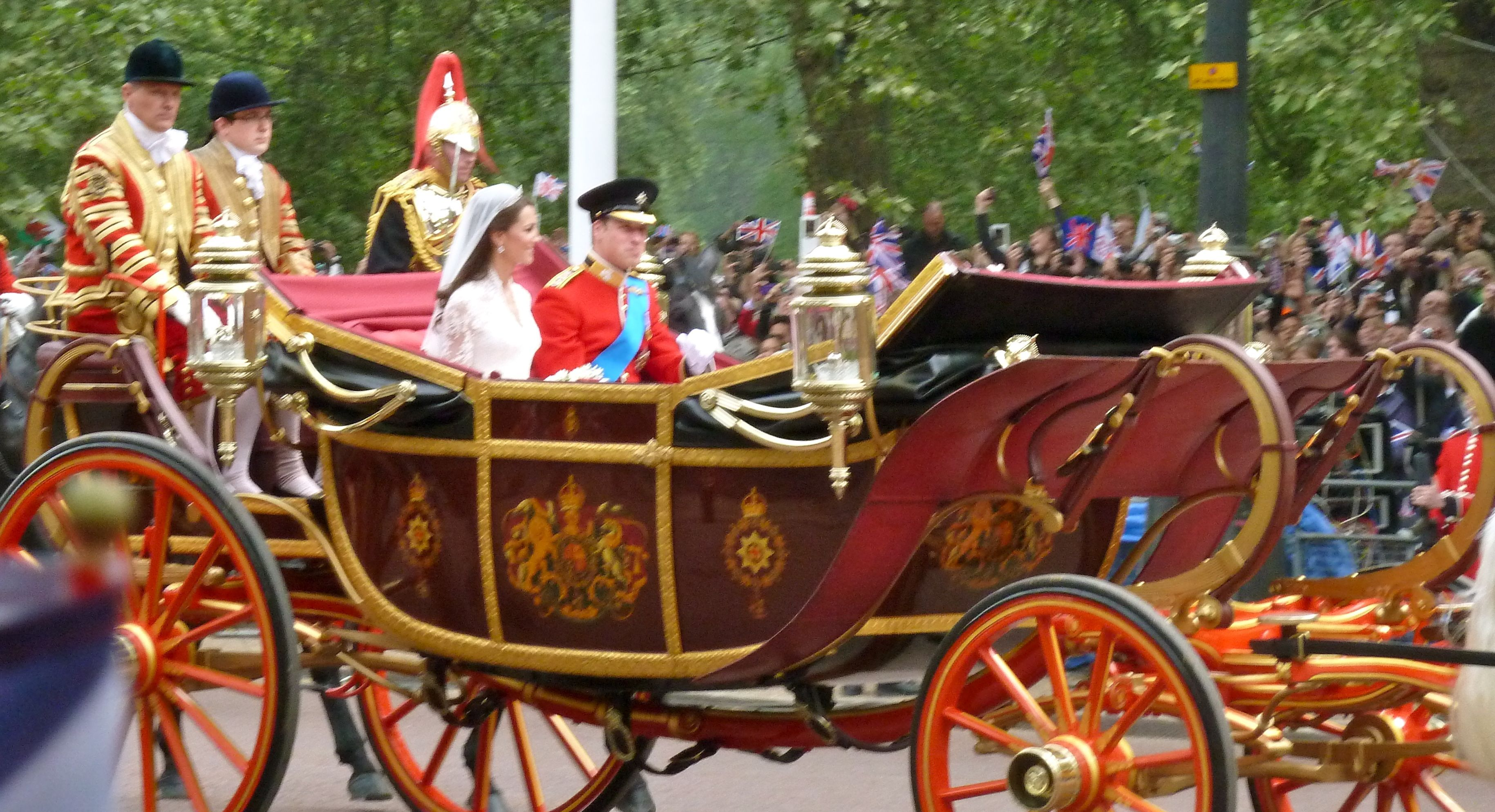 The 1902 State Landau carriage carrying Prince William and Kate Middleton from their wedding at Westminster Abbey